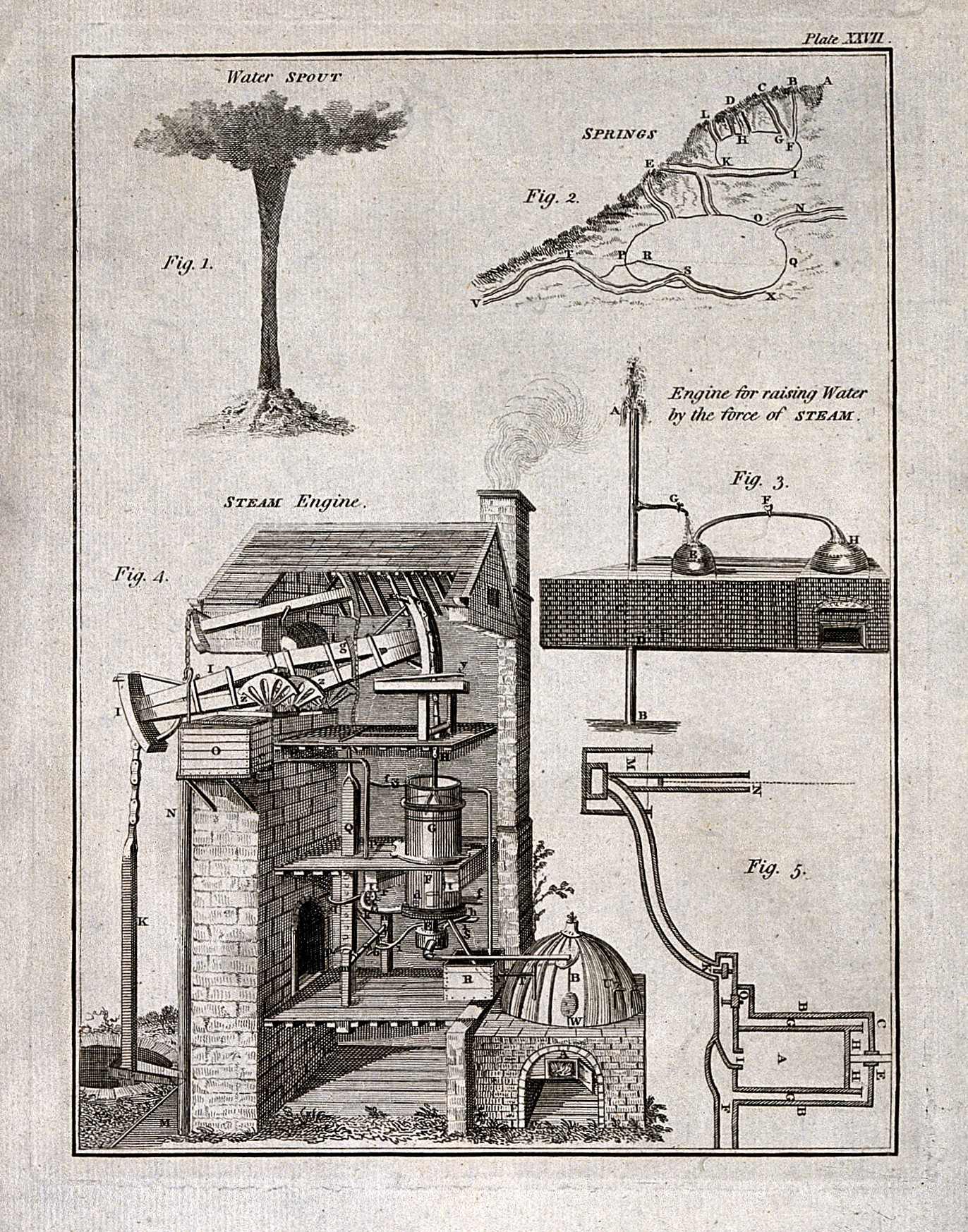 Hydraulics: a geyser, underground springs, and a steam-engine. Engraving, 1747. Iconographic Collections